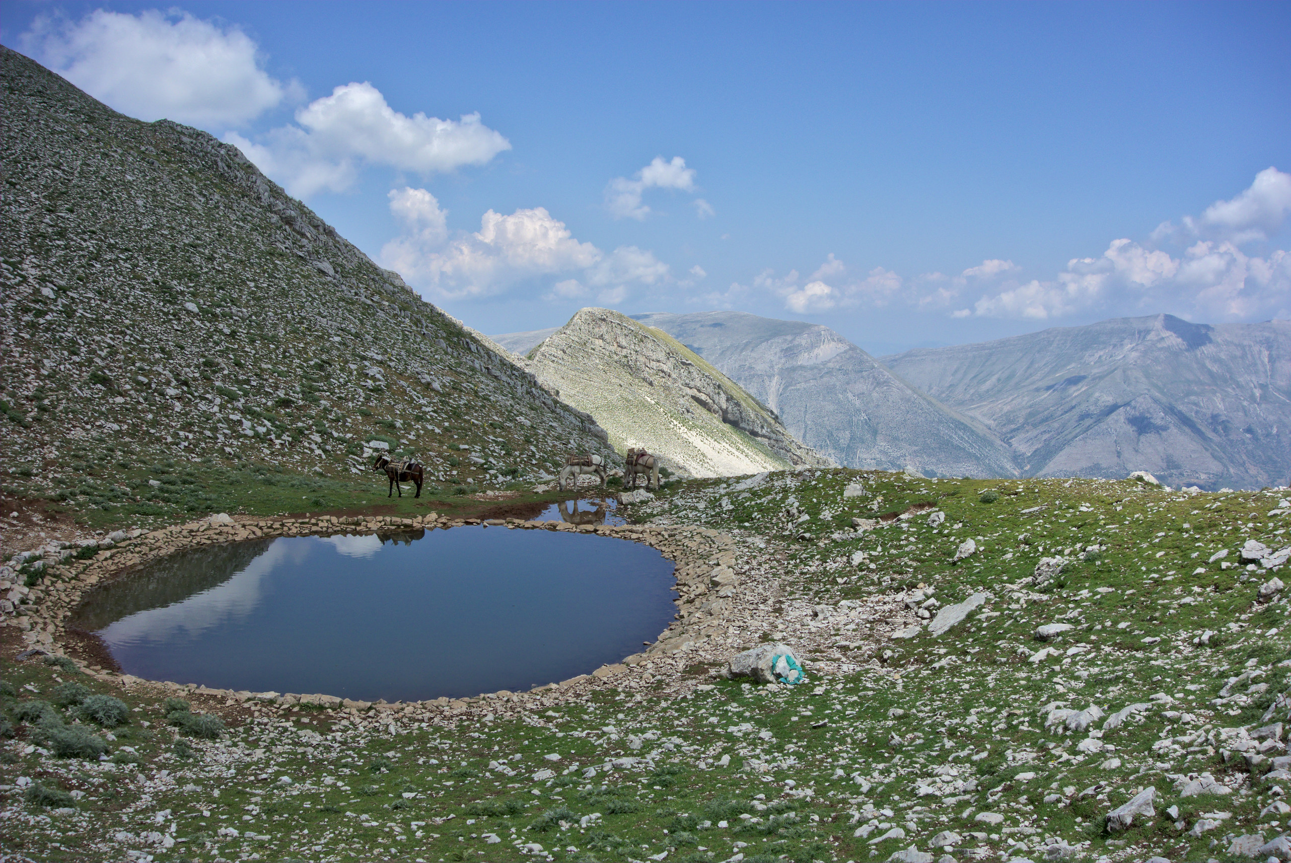 Three Mules at a Dew pond on the Lunxhërisë Mountain in Albania. In the Background you see to the left the Nemërçka Mountain, to the right the Dhëmbel Mountain.